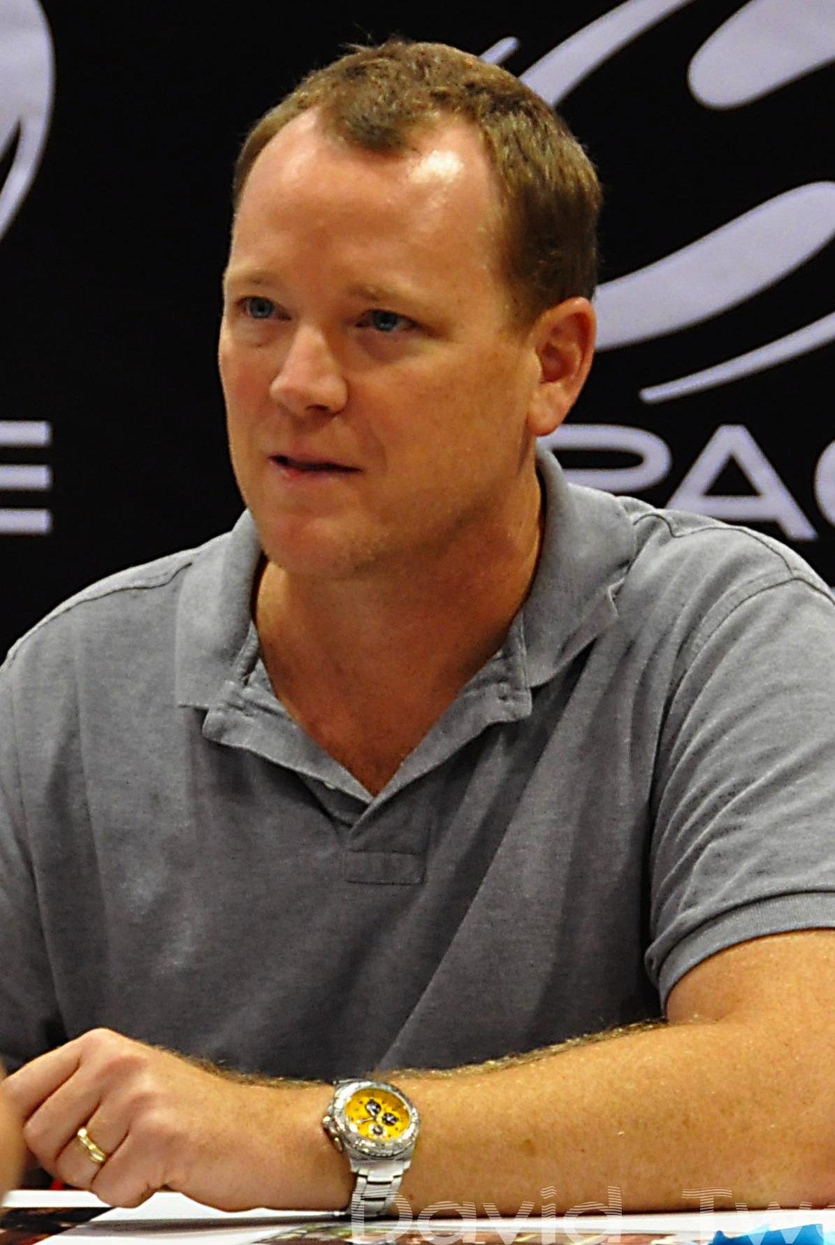 Robert Duncan McNeill signing a fan's autograph at the 2009 Fan Expo Canada Convention in the Entertainment District of the city of Toronto, Canada. Robert Duncan McNeill is an American actor who is most well known for his role as Lieutenant Tom Paris on Star Trek Voyager which ran from 1995 until 2001. McNeill is now concentrating on his directing career and his directing credits include various episodes of Desperate Housewives, Medium, The Nine, and My Boys. In 2007, he directed the season 5 premiere of Las Vegas, the pilot of Samantha Who?, and signed on as a producer-director of the then new NBC show Chuck.